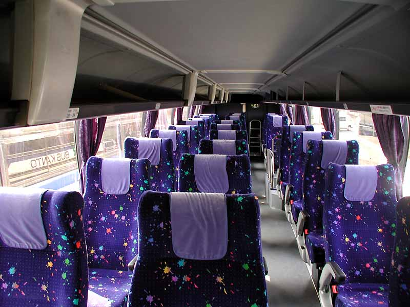 Example of "Independent 3 lines seat configuration" for Japanese overnight highway buses. Model: Neoplan Skyliner N122/3 (JR Bus Kanto No. D670-01502) Date: March 10, 2002 Place: JR Bus Kanto Co. Utsunomiya Dept. Tochigi, Japan (in event Day) Taken By: Comyu. Notice: the same file uploaded to Japanese Wikipedia, ç”»åƒ :JRbuskanto D670-01502cabin.jpg.